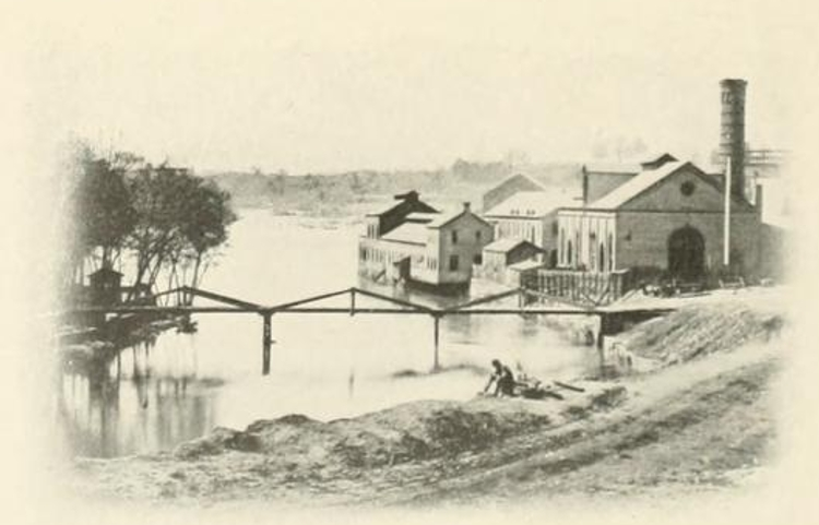 Tredegar Iron Works in Richmond where the Confederacy made heavy guns p. 307.